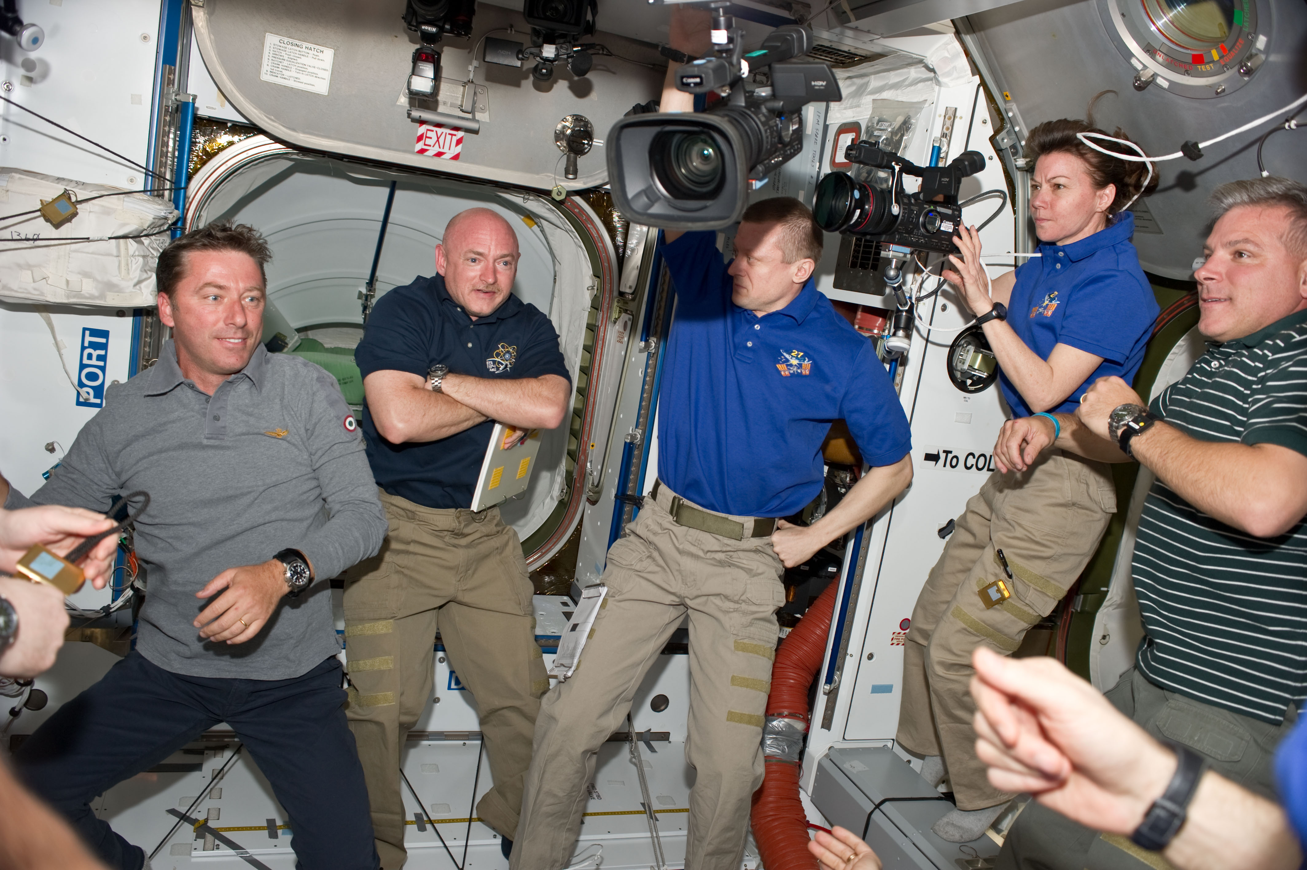 STS-134 and Expedition 27 crew members are pictured in the Harmony node of the International Space Station shortly after space shuttle Endeavour and the space station docked in space and the hatches were opened. Pictured from the left are European Space Agency astronaut Roberto Vittori, STS-134 mission specialist; NASA astronaut Mark Kelly, STS-134 commander; Russian cosmonaut Dmitry Kondratyev, Expedition 27 commander; NASA astronaut Cady Coleman, Expedition 27 flight engineer; and NASA astronaut Greg H. Johnson, STS-134 pilot.